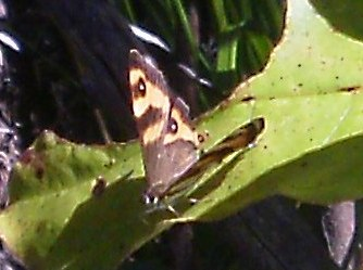 Dodonidia helmsii, Forest Ringlet butterfly or Helm's butterfly in Upper Hutt, New Zealand